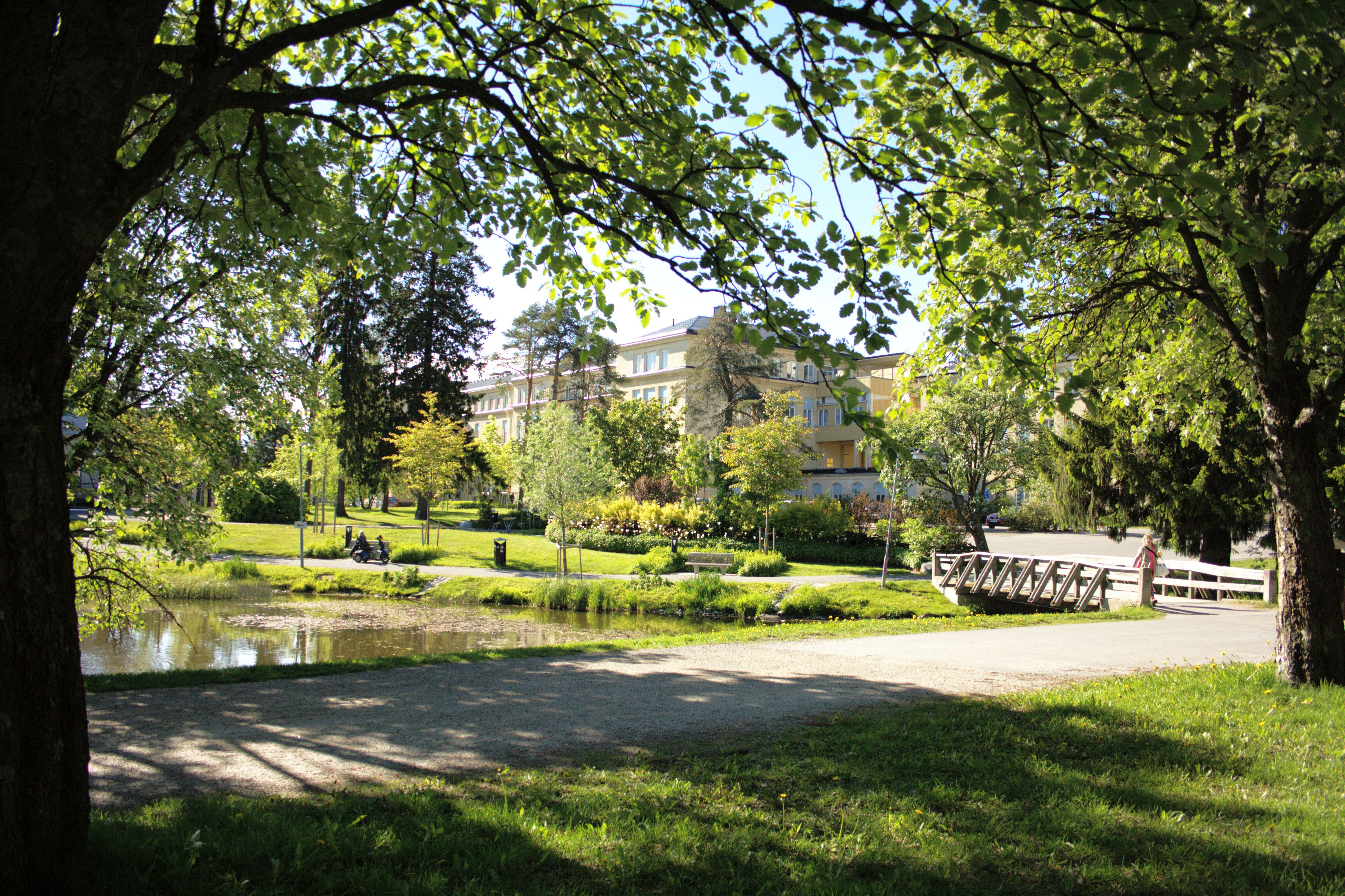 The hospital park at University Hospital of Umeå.